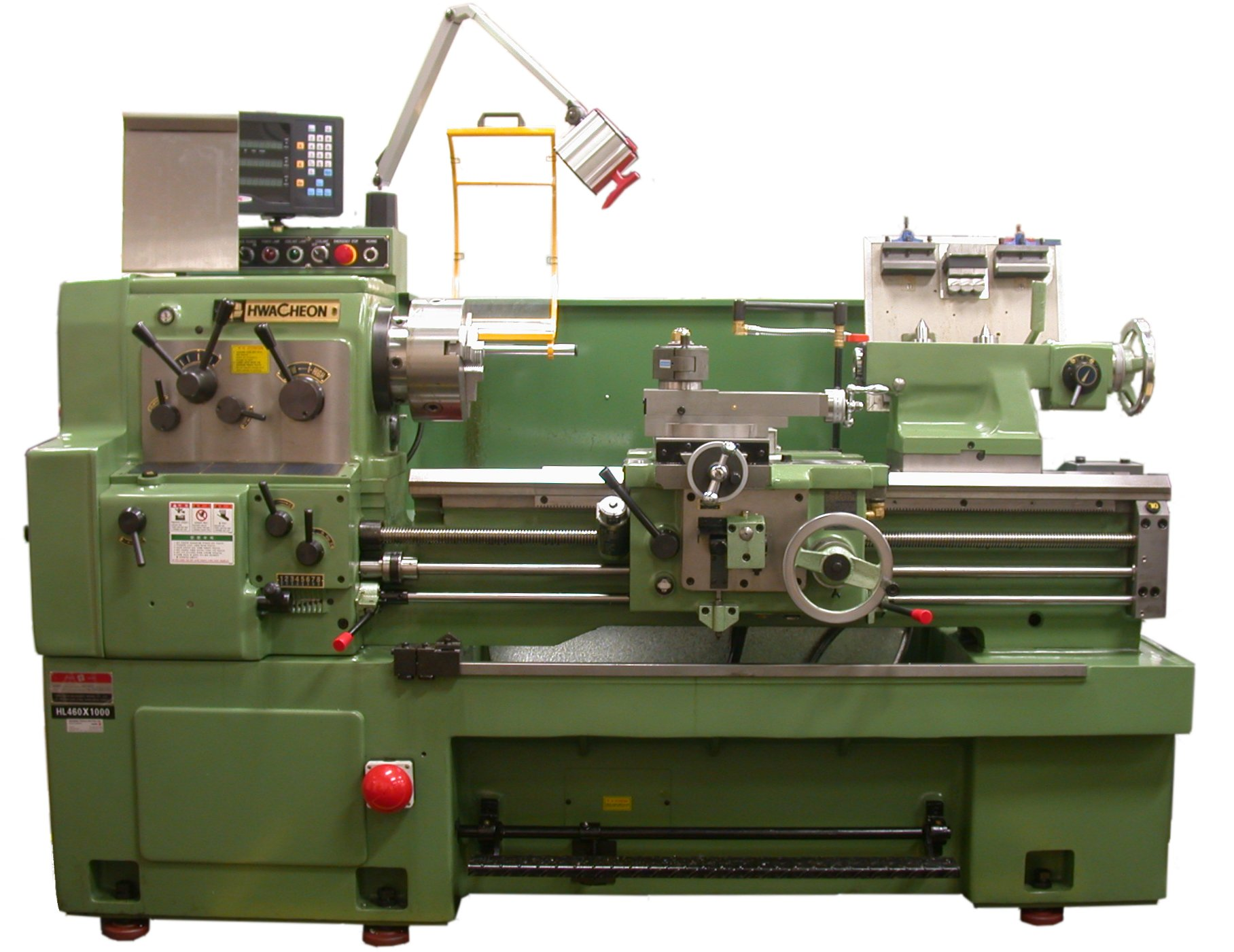 Centre lathe (Hwacheon). 460mm swing, 1000mm between centres, with DRO, chuck guard, and Haase toolholder